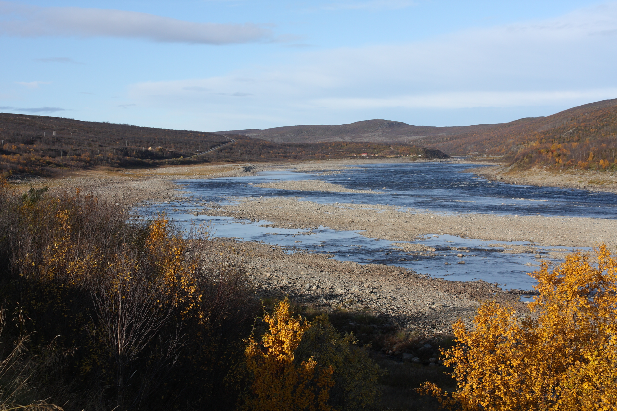 Teno river with fall colors. The left side is Utsjoki, Finland and the right side is Norway.